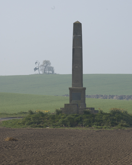 Monument to the Battle of Marston Moor The monument marks the approximate centre of the battlefield. Local legend has it that the distinctive clump of trees in the background is the viewpoint from which Cromwell directed his army. Marston Moor was the largest battle fought in Britain.